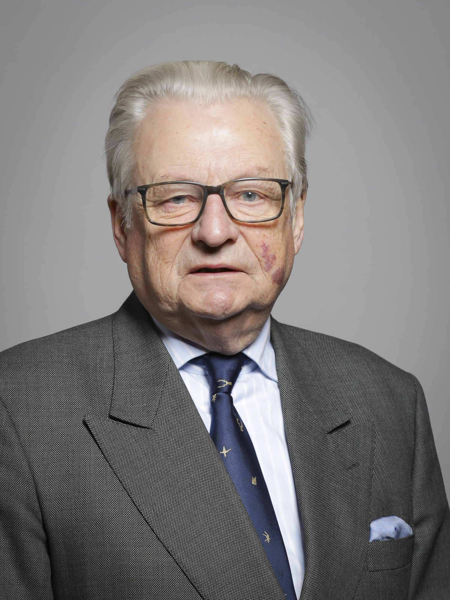 Official portrait of Lord Elis-Thomas 3×4 portrait of Lord Elis-Thomas